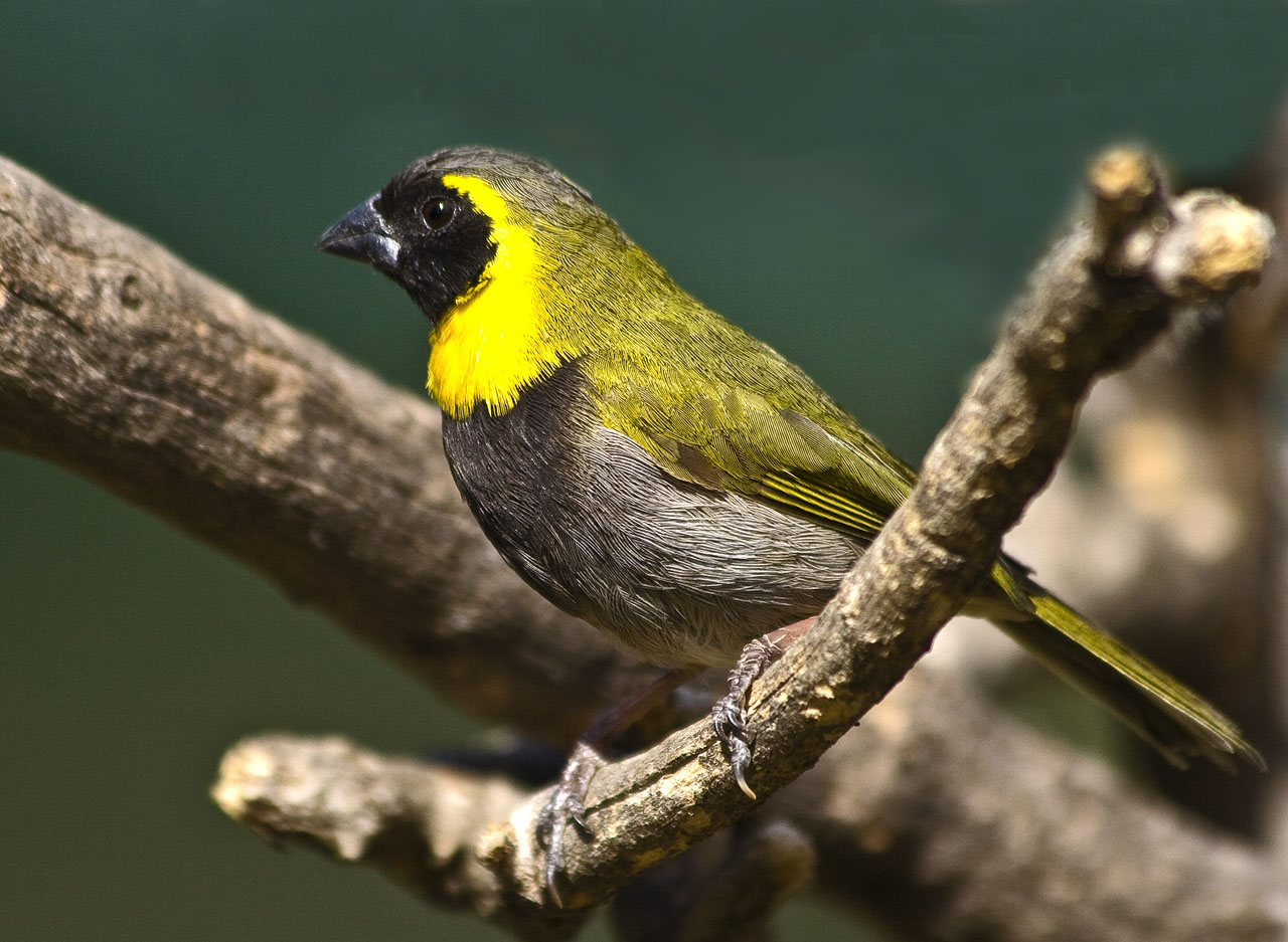 A male Cuban Grassquit at Canberra Walk In Aviary, Australia.